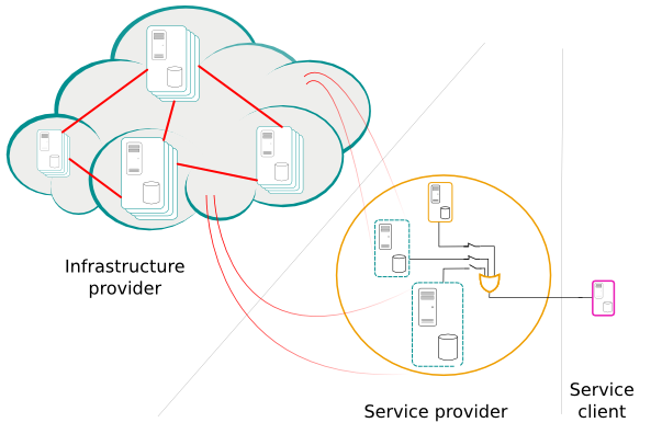 Interactions in Cloud Computing environments